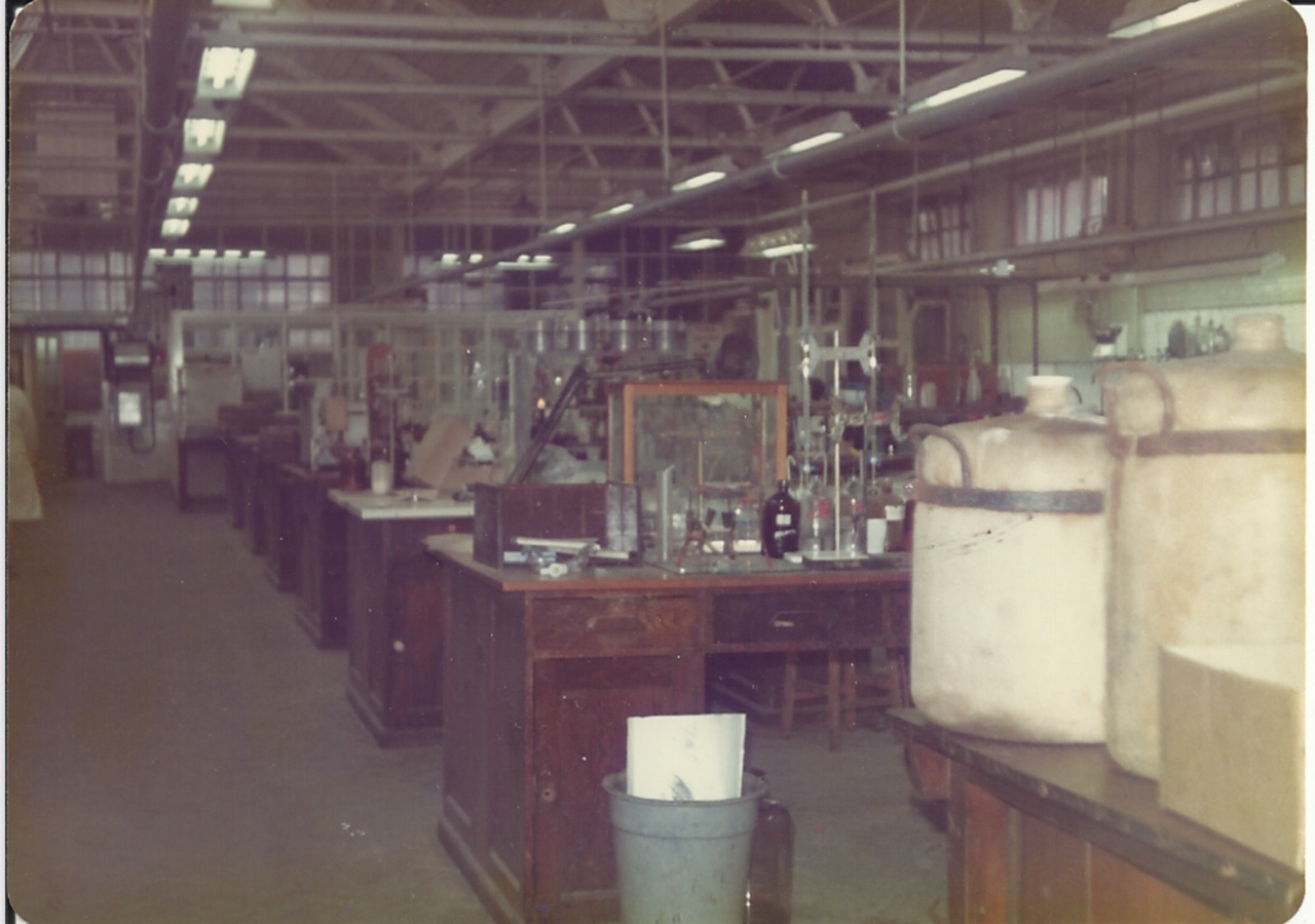 Inside Courtaulds Red Scar Works Preston UK- LABORATORY